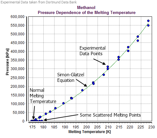 Pressure-dependence of the melting temperature of Methanol described with the Simon-Glatzel equation. Experimental Data from the Dortmund Data Bank